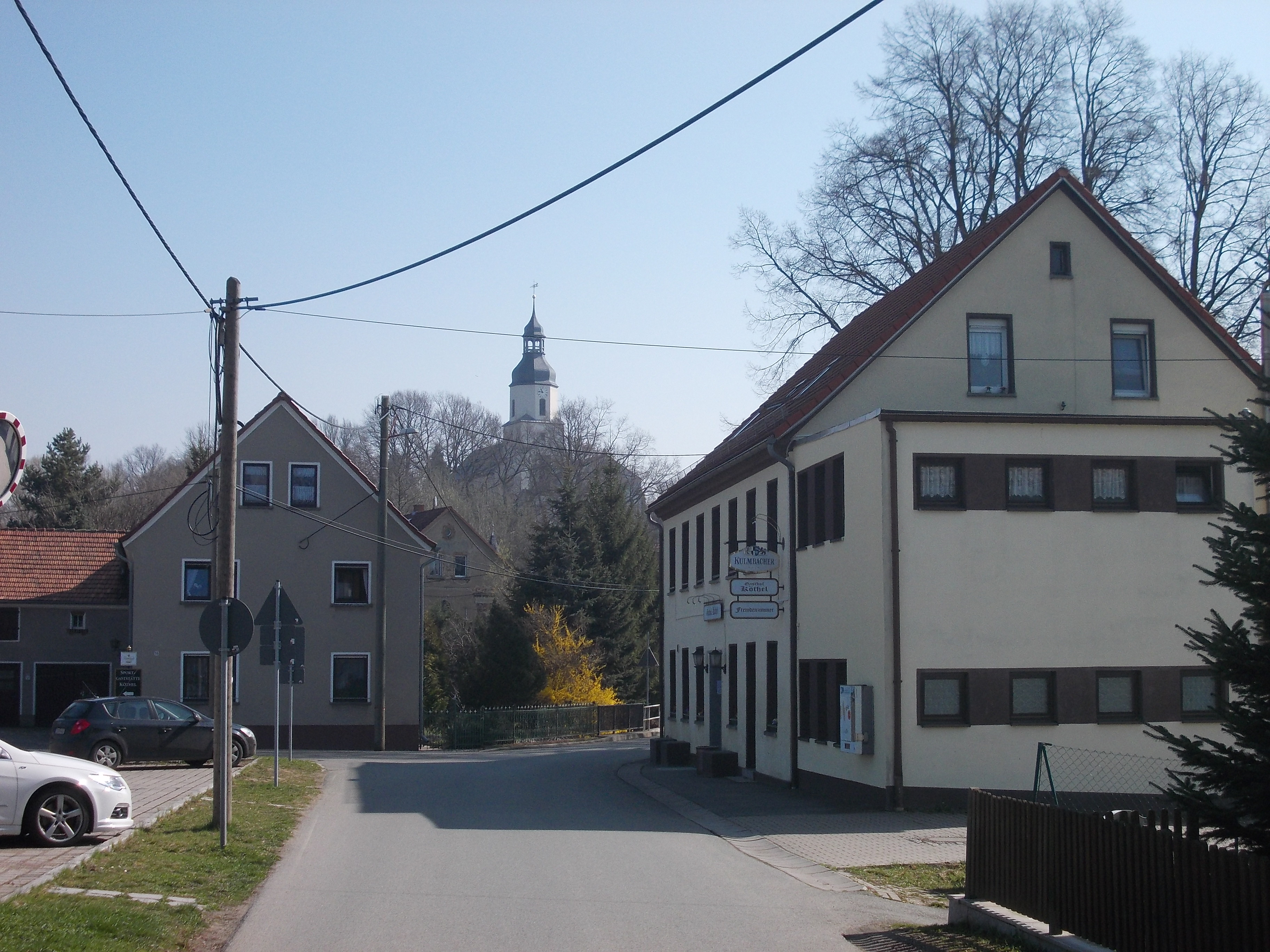 Köthel inn and Schönberg church (Schönberg, Zwickau district, Saxony)